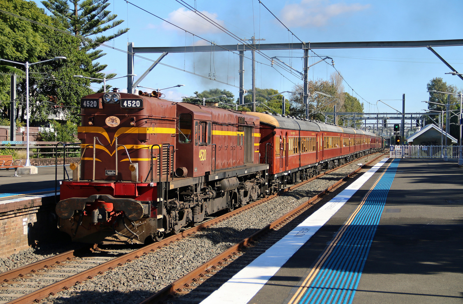 4520 works push pull with 3642 during the Transport Heritage Expo of 2017.